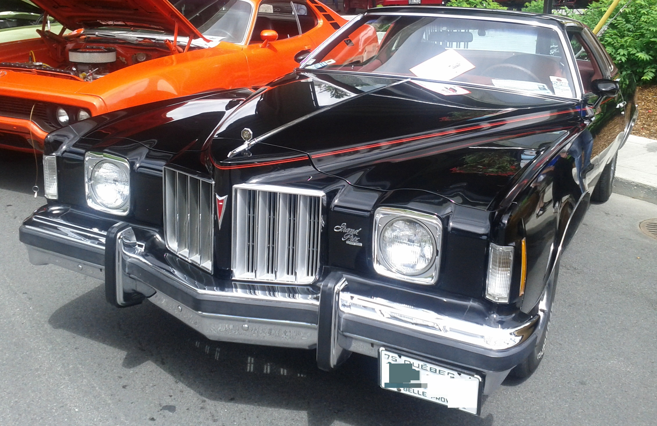 1975 Pontiac Grand Prix photographed in Ste. Anne De Bellevue, Quebec, Canada at Cruisin' At The Boardwalk.